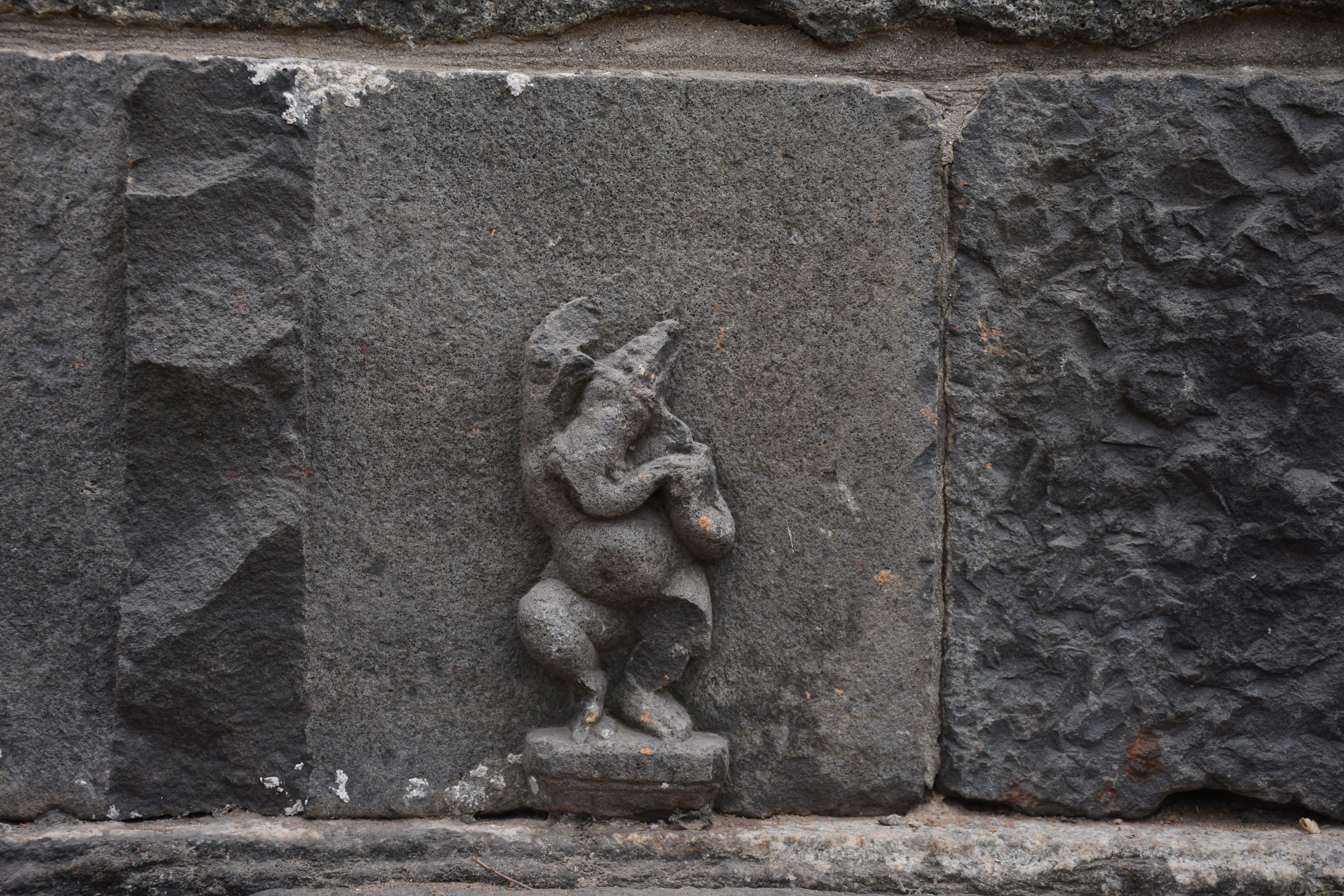 Motifs and works at Adina Mosque